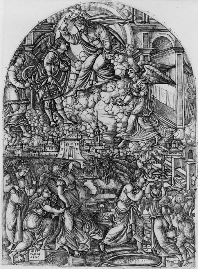 "Apocalypse" or "Apocalypse in the wine press of the wrath of God". Engraving by Jean Duvet (1485 - ca. 1570).